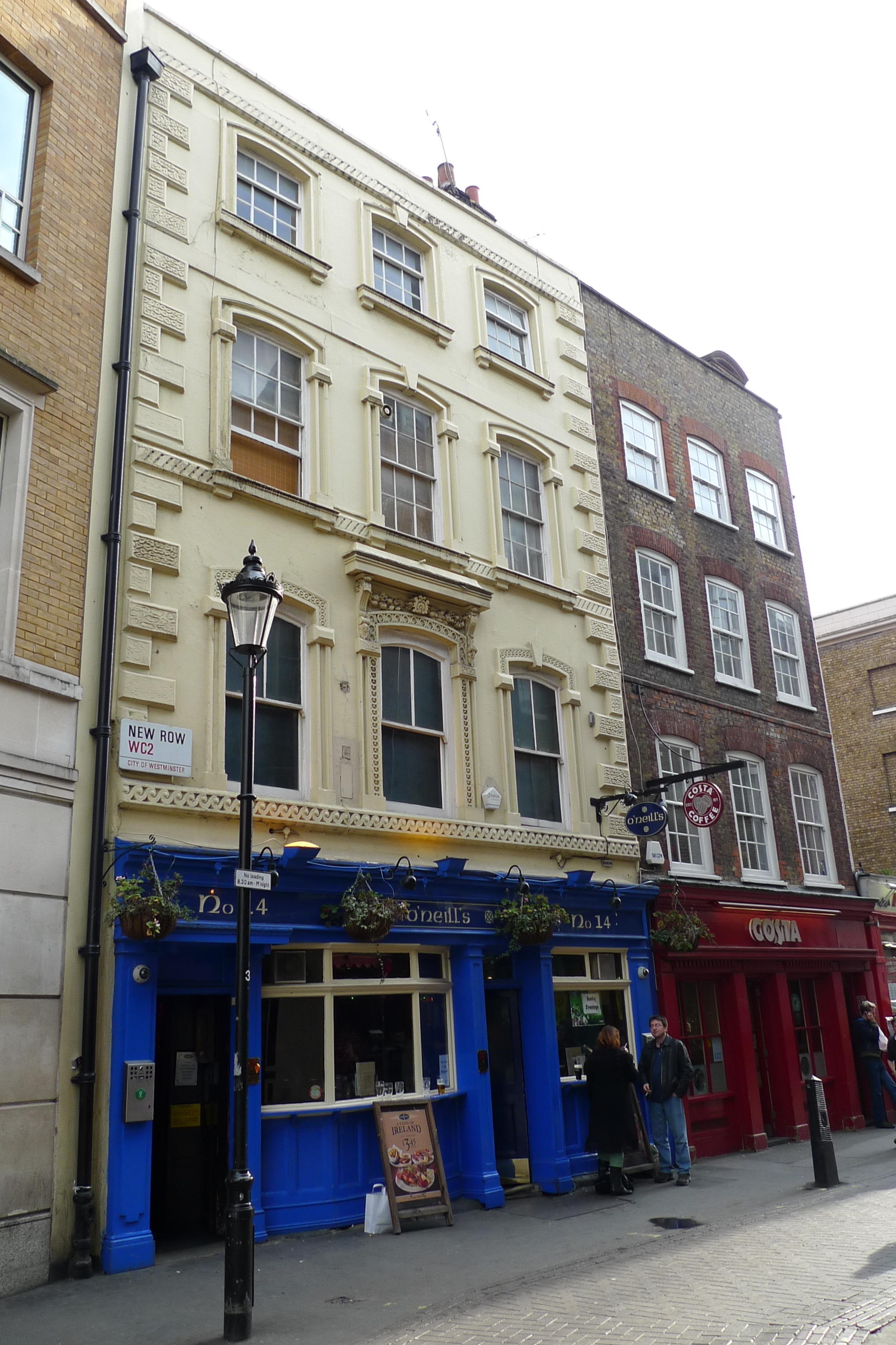 Chain Irish pub, don't get excited. As of 2012, it's been renamed back to The White Swan and is now Nicholson's branded. (It was in the Good Beer Guide as the White Swan.) Address: 14 New Row. Former Name(s): PJ Molloy's and Sons; The White Swan. Owner: Mitchells and Butlers [Nicholson's]; Mitchells and Butlers [O'Neill's] (former); Bass (former). Links: Fancyapint Beer in the Evening